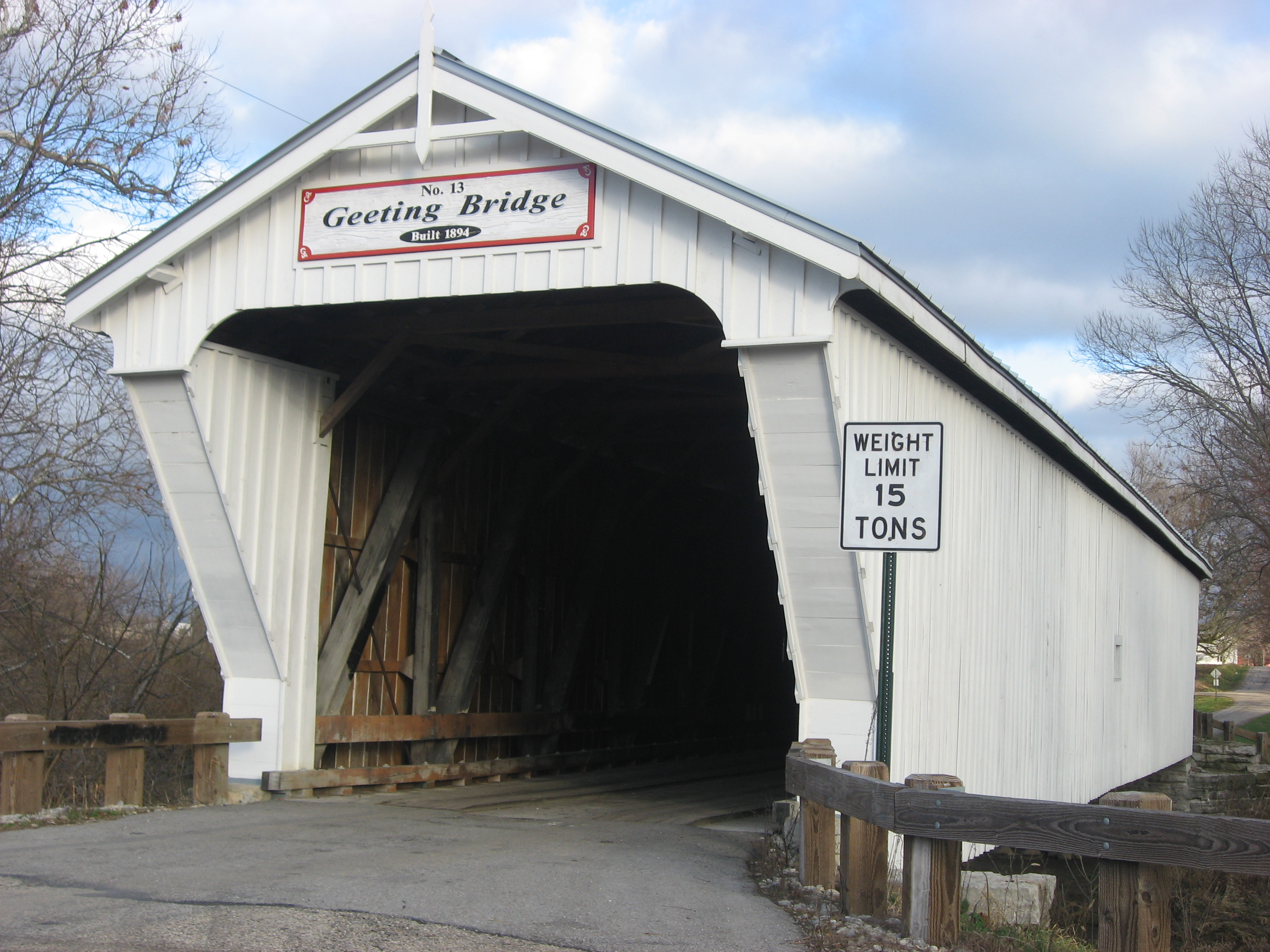 Western portal and southern (downstream) side of the Geeting Covered Bridge, which carries Price Road over Price Creek west of Lewisburg in Monroe Township, Preble County, Ohio, United States. Built in 1894, it is listed on the National Register of Historic Places.